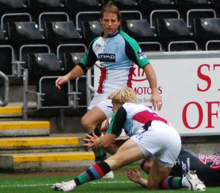 Andy Gommarsall